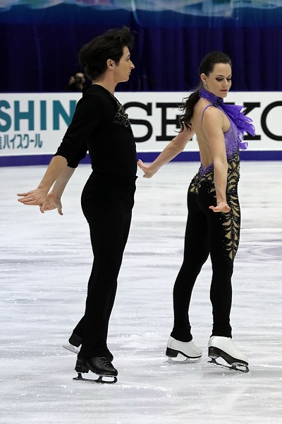 Tessa Virtue and Scott Moir at the 2016 NHK Trophy